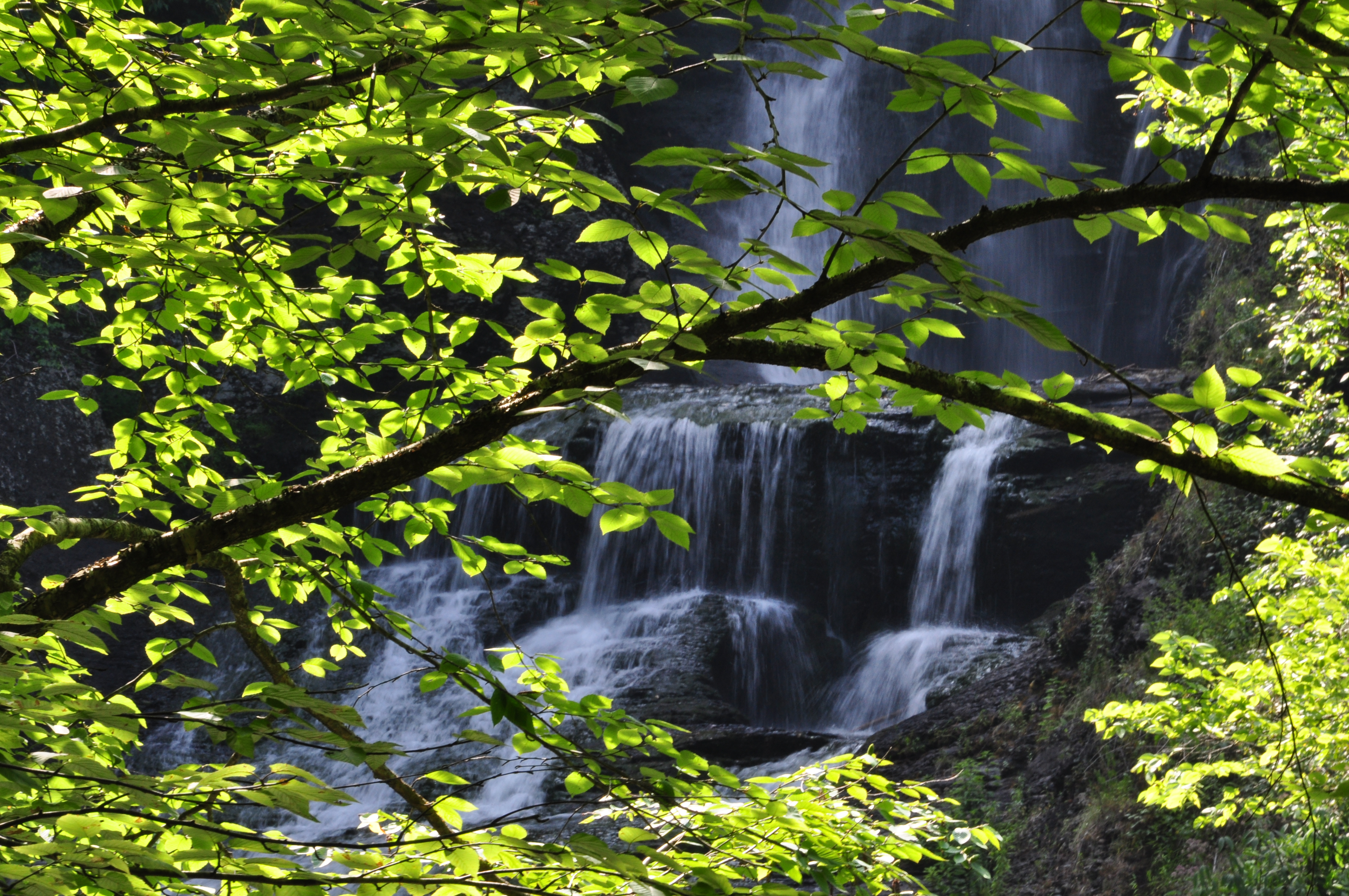 Dingmans Falls is located in Dingmans Ferry, Pennsylvania. It is part of the Delaware Water Gap National Recreation Area which preserves almost 70,000 acres of land along the Delaware river. The falls cascades over stair-step layers of shale and plunges 130 feet to create magnificent waterfalls.